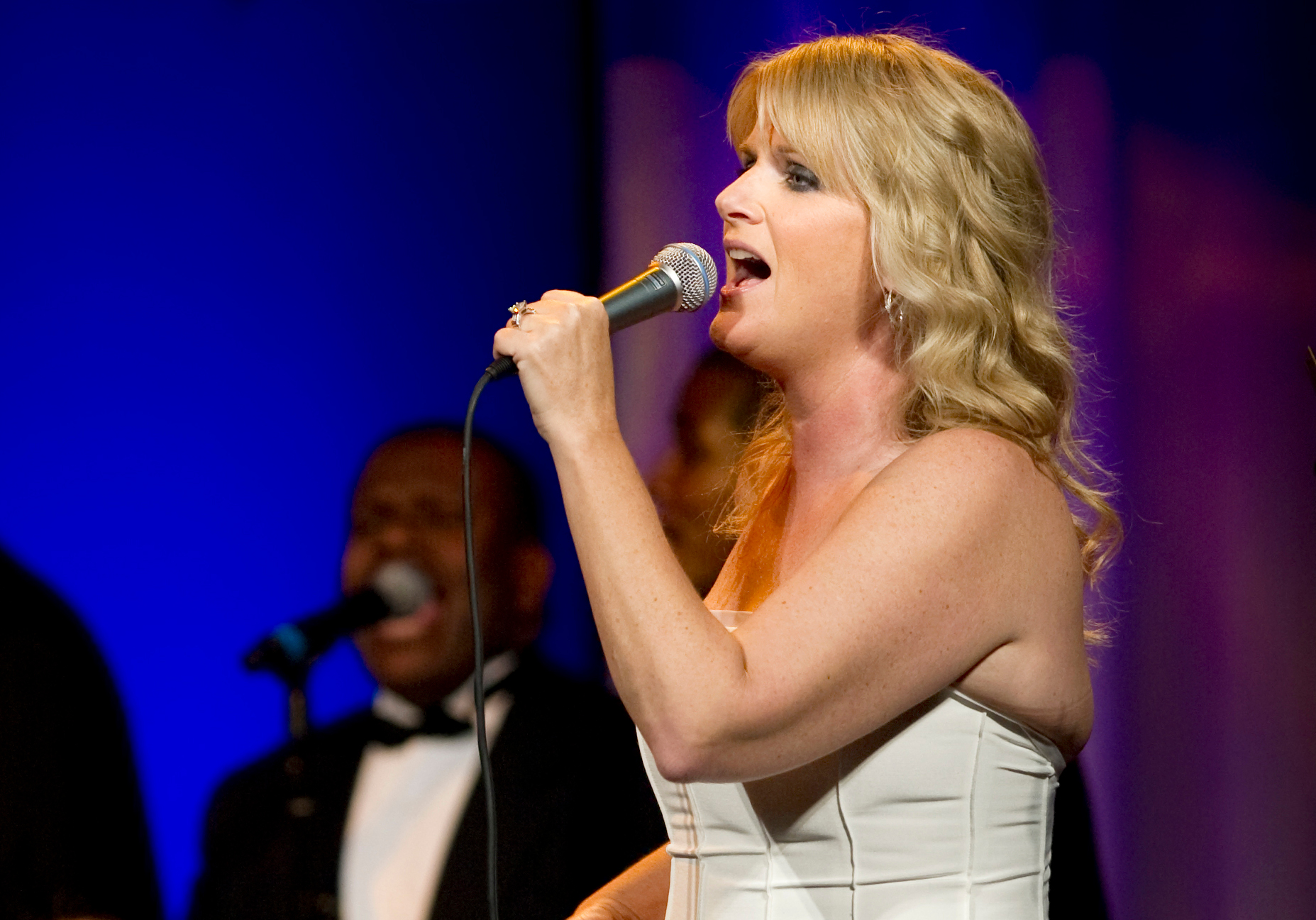 Country music legend Trisha Yearwood performs at the USO Gala in Washington, D.C., USA, Oct. 7, 2010.